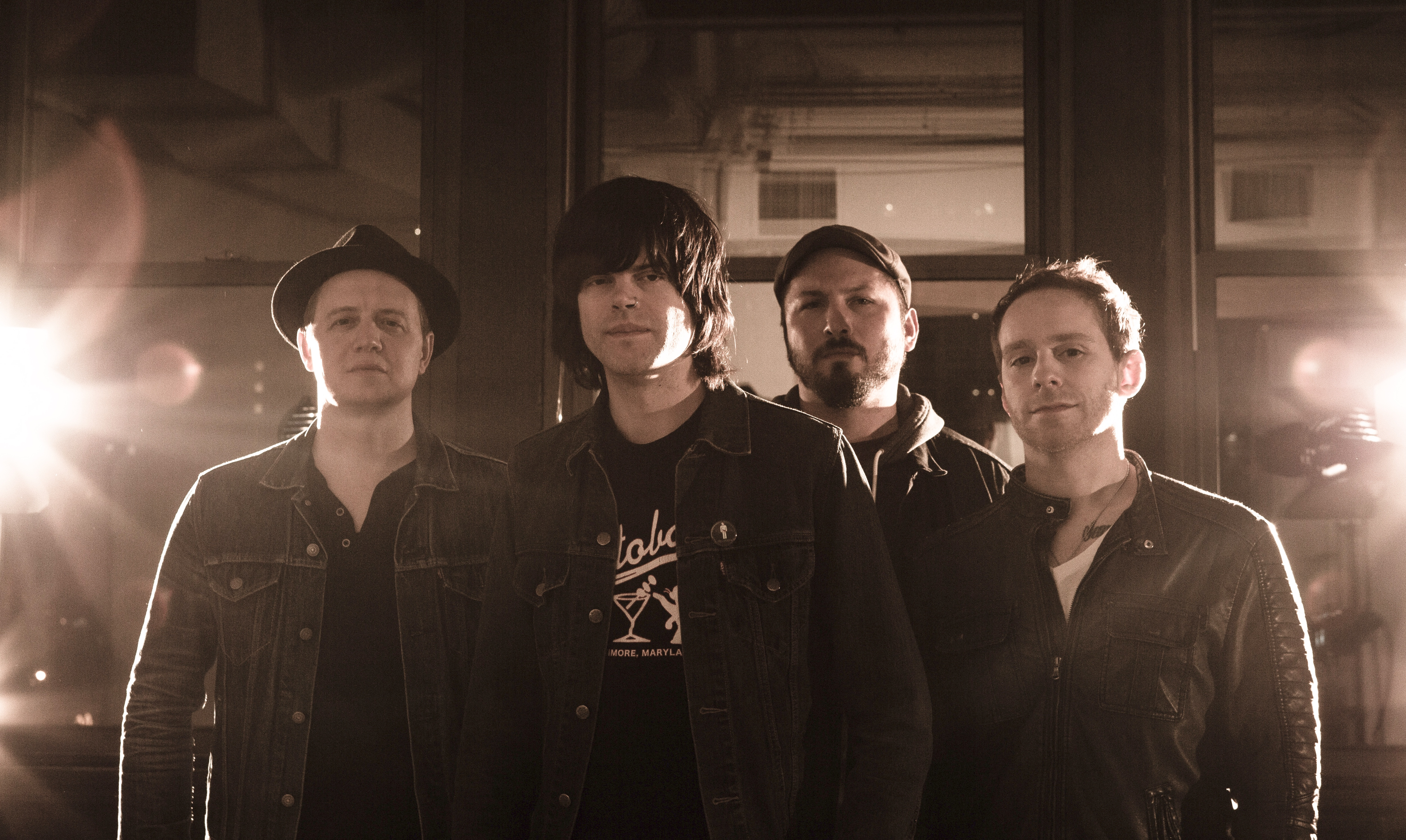 AM Taxi 2019